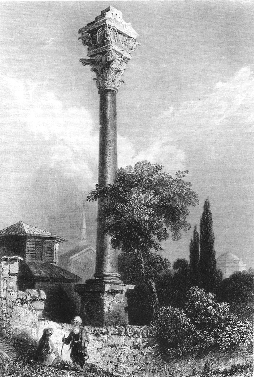 Mid 19 century engraving Column of Marcian William Henry Bartlett - today the colulmn is at Fatih, Istanbul, Turkey.